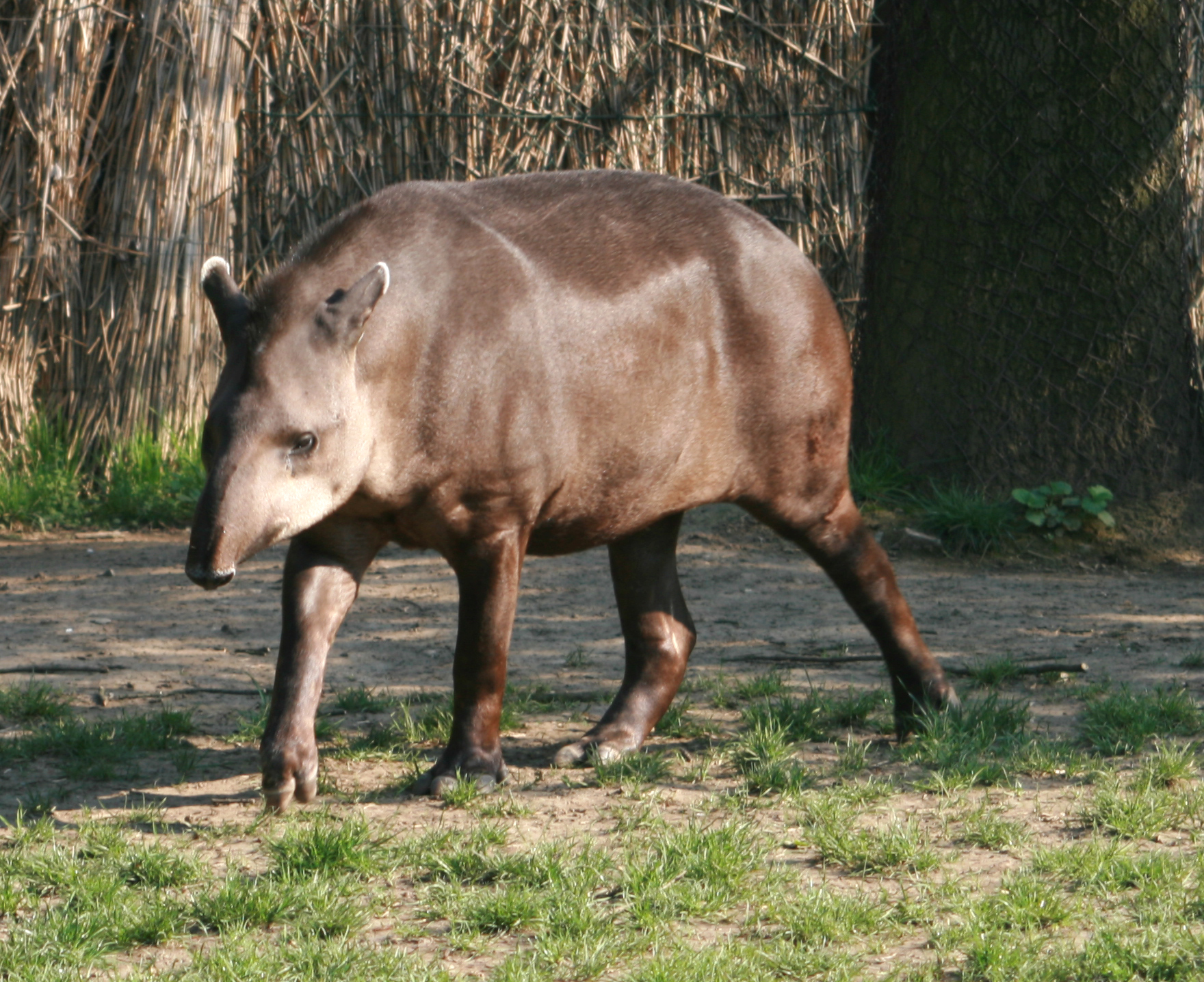 Brazilian Tapir, Tapirus terrestris in ZOO Praha, Czech Republic